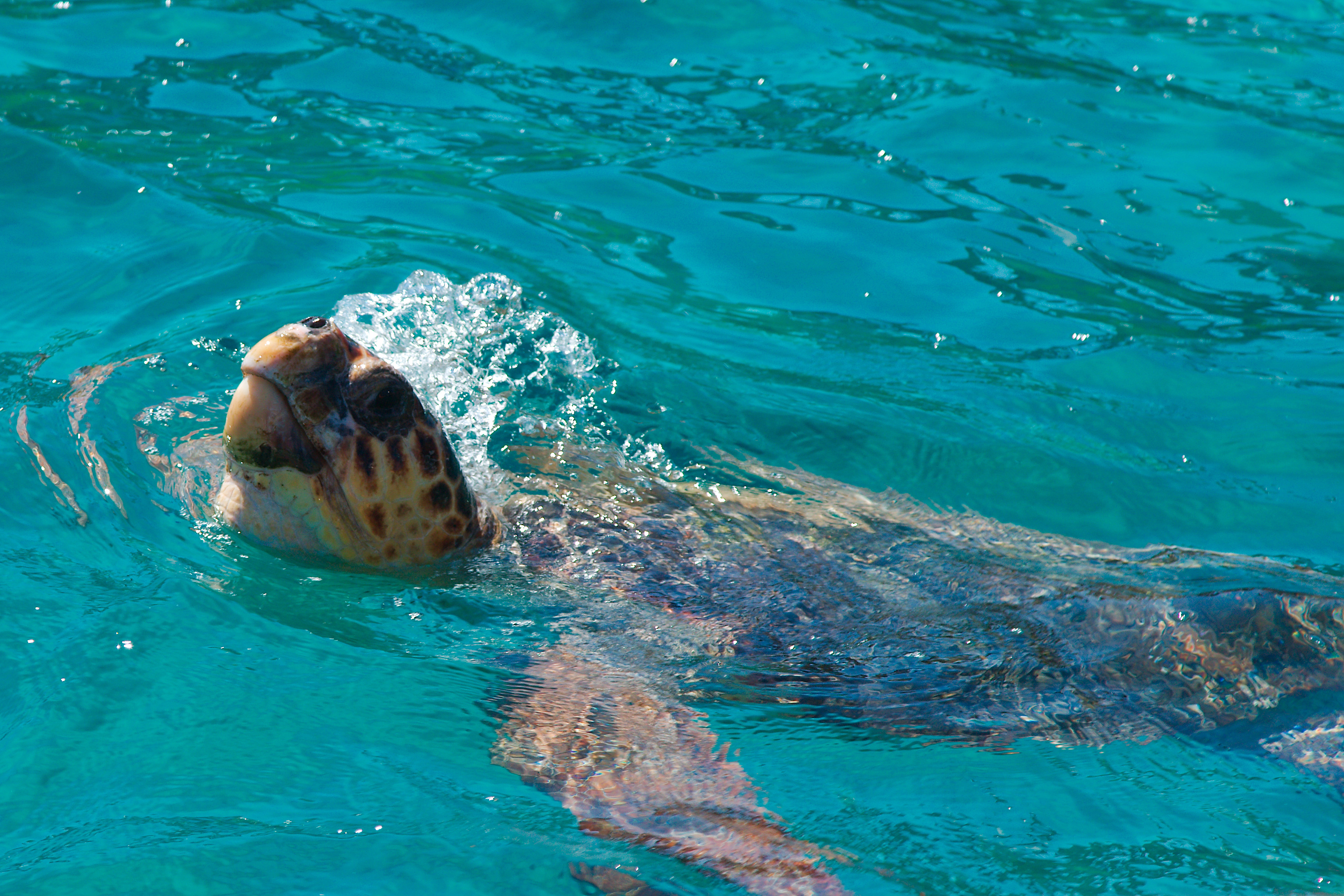 Loggerhead sea turtle in the bay of Laganas.